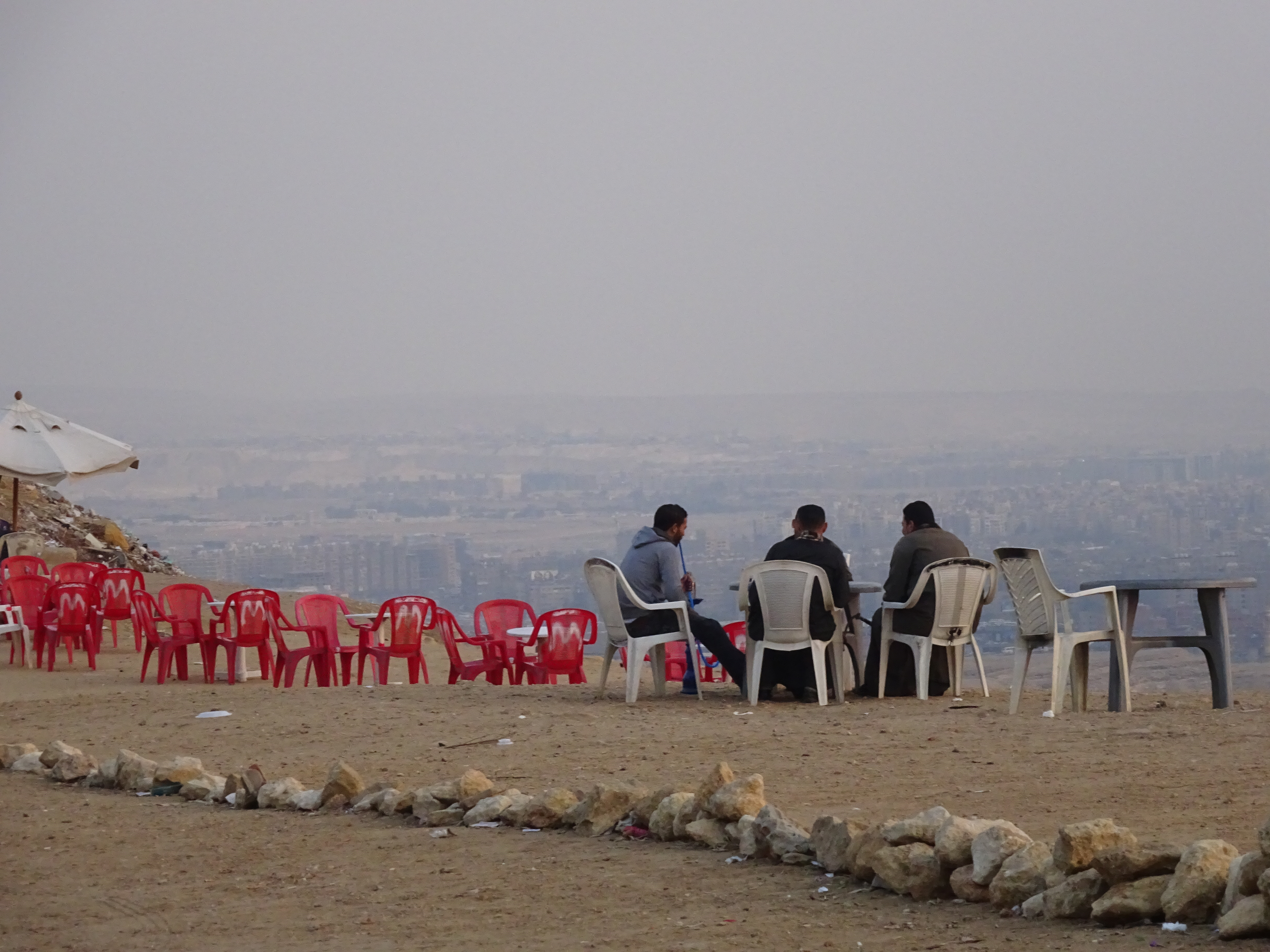 View from the corniche in Mokattam (Cairo)